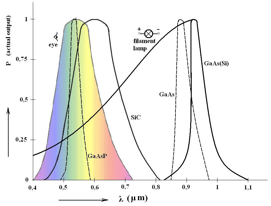 Led spectrum